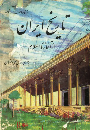 History of Persia-Textbook cover- Ministry of Culture- Iran-1964